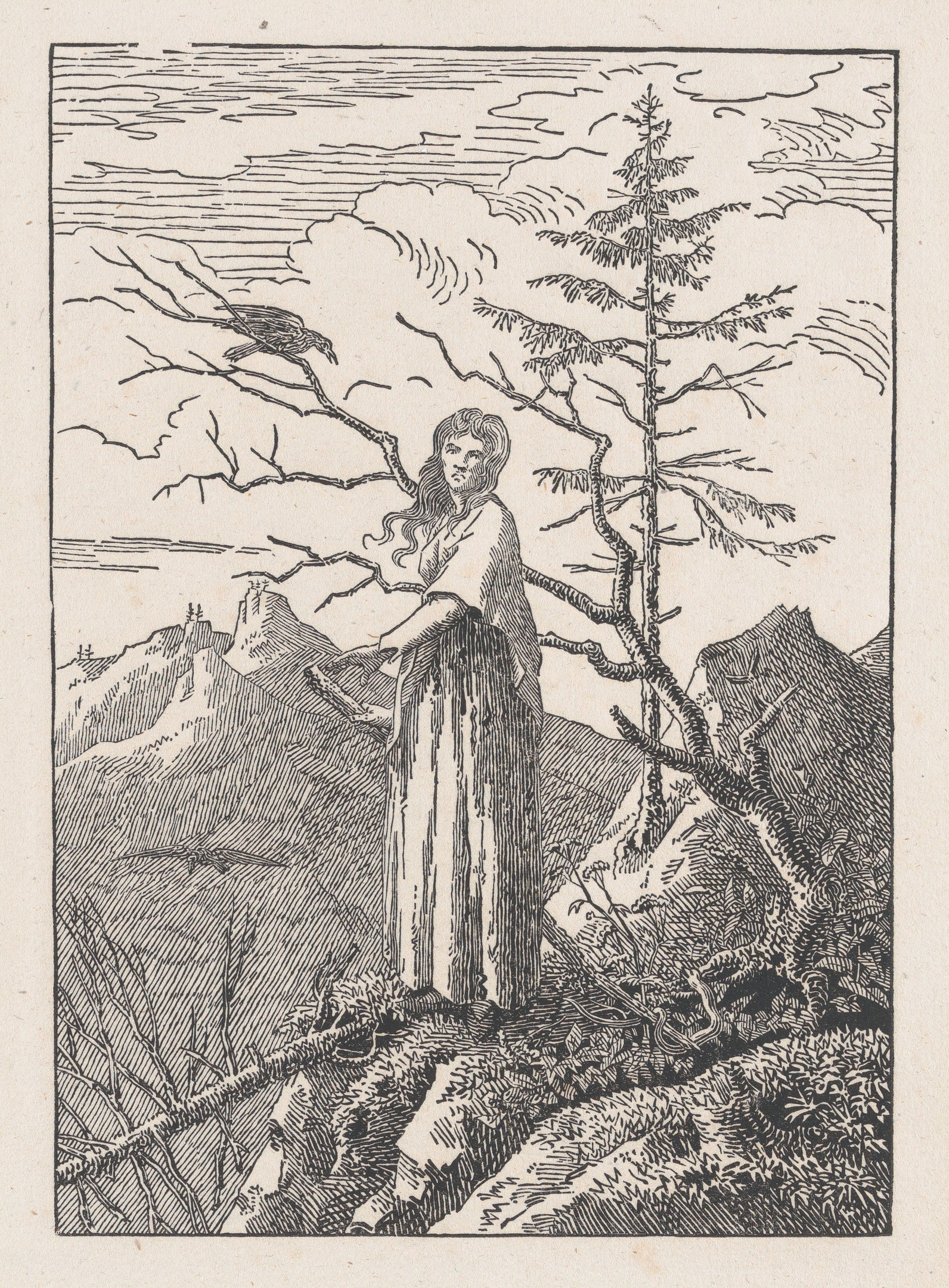 Print; Prints